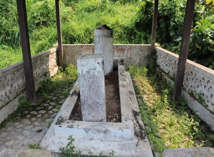 Sheikh Muhammad Amrullah's tomb in Sungai Batang, Tanjung Raya, Agam Regency, West Sumatra, Indonesia